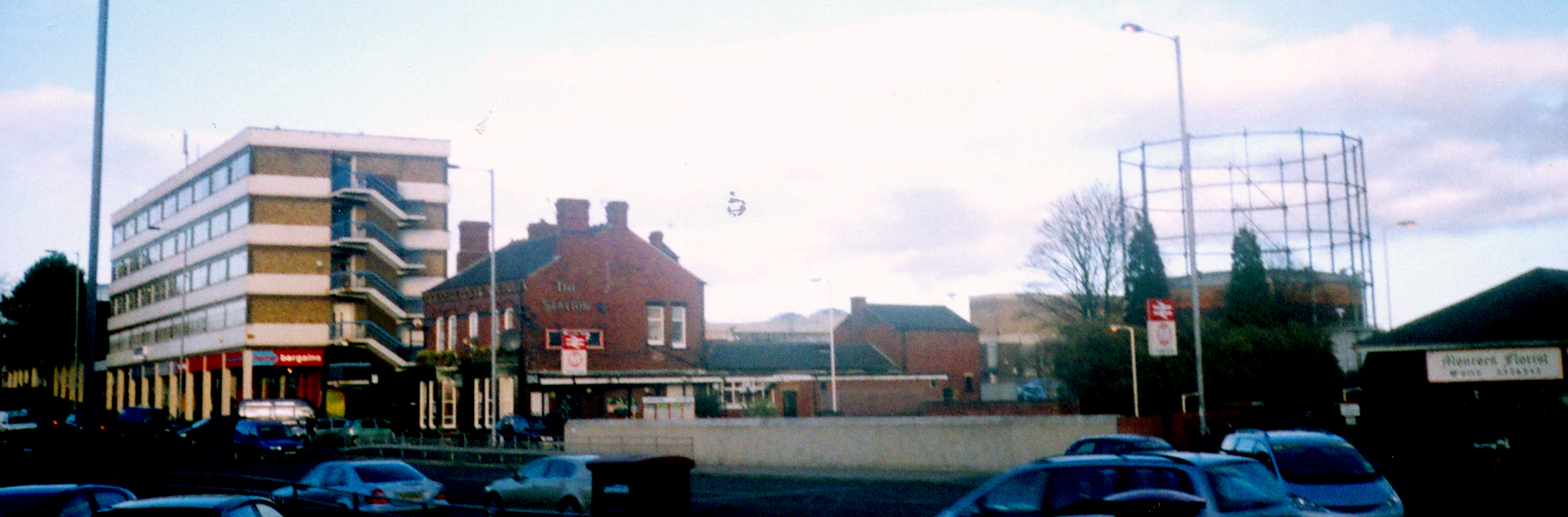 Picture of Station Road,Cross Gates looking towards the railway station, Crossgates Centre and gas holder, Leeds UK.